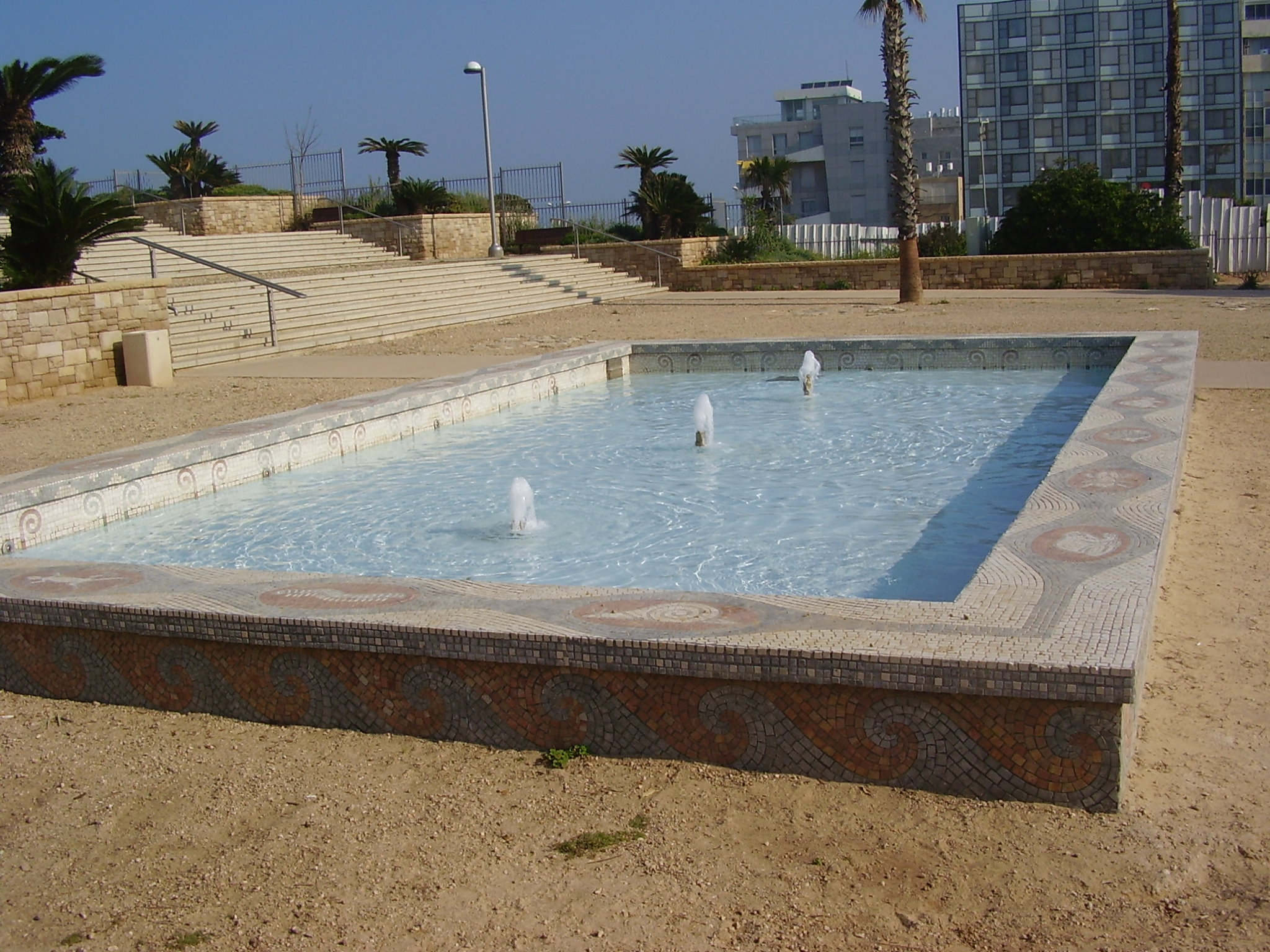 Waterpool in Indepdndece park, Tel Aviv